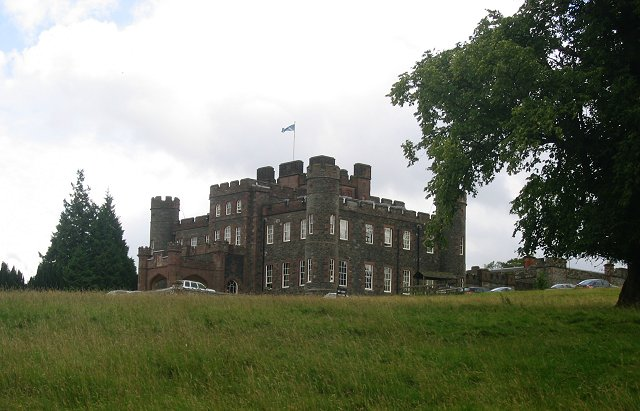 Stobo Castle. Centrepiece of the estate, and now an upmarket, very upmarket "health farm". Taken quickly as the "Can I Help Yous" bore down on me.